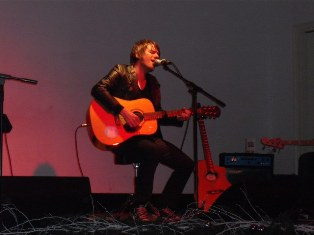 Alistair Griffin @ Cobden Club London